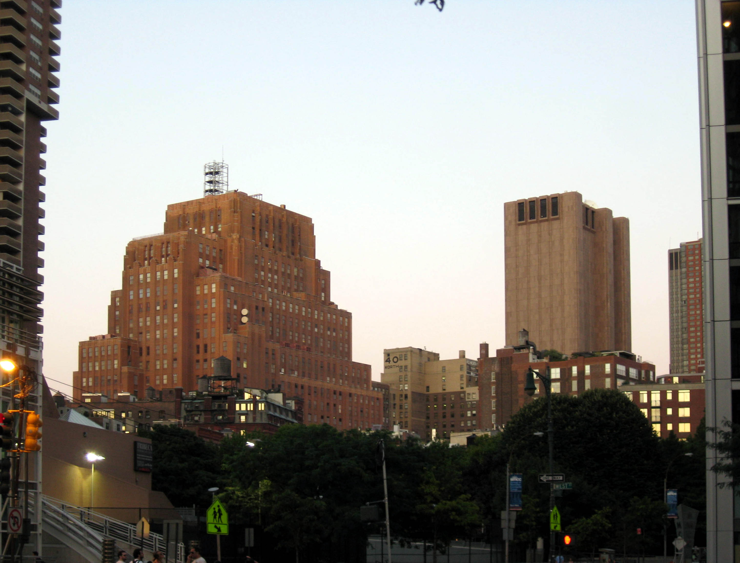 Looking northeast from West Side Highway at en:60 Hudson Street (Western Union) and en:33 Thomas Street (AT&T), at dusk of a sunny day